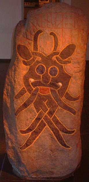 A photograph of the Runestone DR 66 from Århus, showing the Århus Mask.